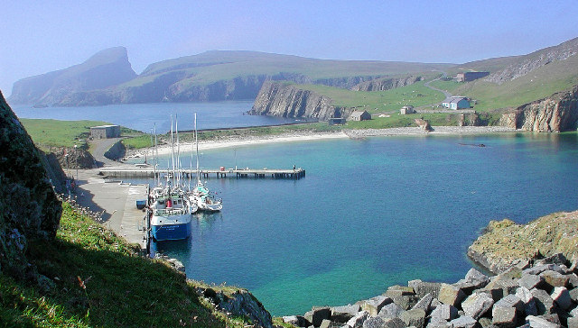 The Fair Isle ferry, the Good Shepherd IV, tied up alongside in the North Haven, Fair Isle with a number of visiting yachts. The world-renowned Fair Isle Bird Observatory on the hillside above the blue building. Sheep Rock to the left in the distance.